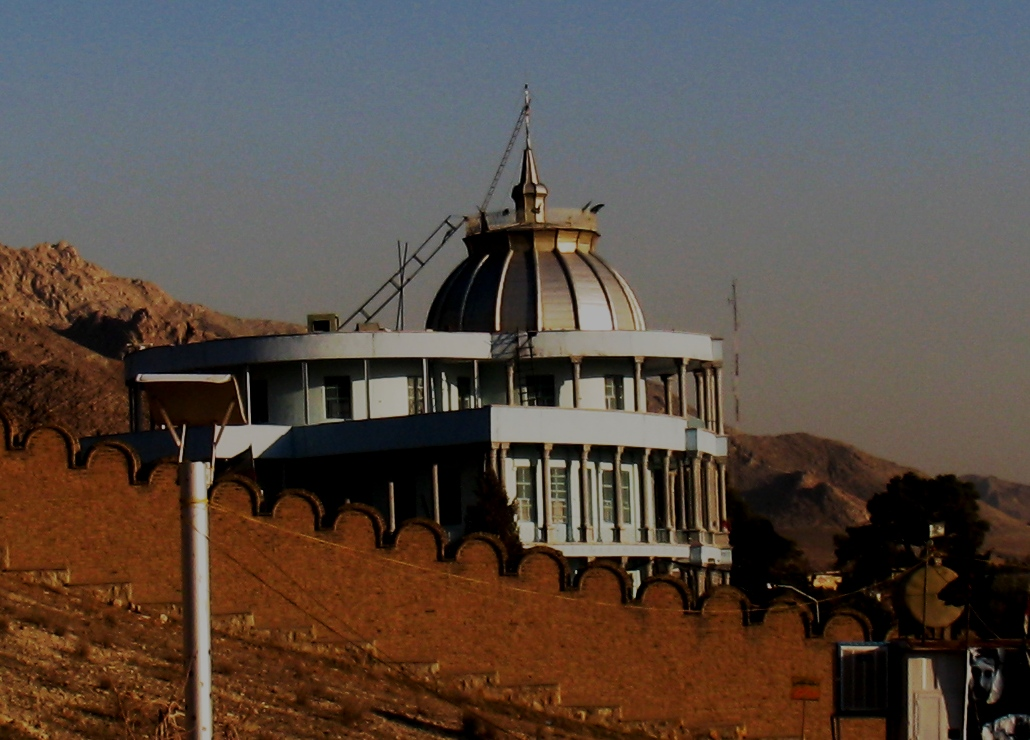 Kakh Farahabad Tehran Qasr E Firozeh Marine museum of Tehran Piroozi St (Farah Abad St.), Tehran, Iran